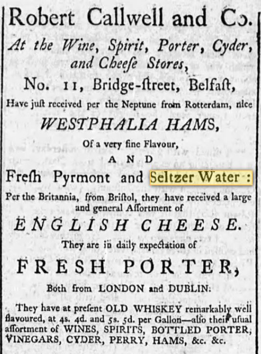 18-century Seltzer Water ad, Belfast Evening Post, Belfast, Ireland, August 7, 1786